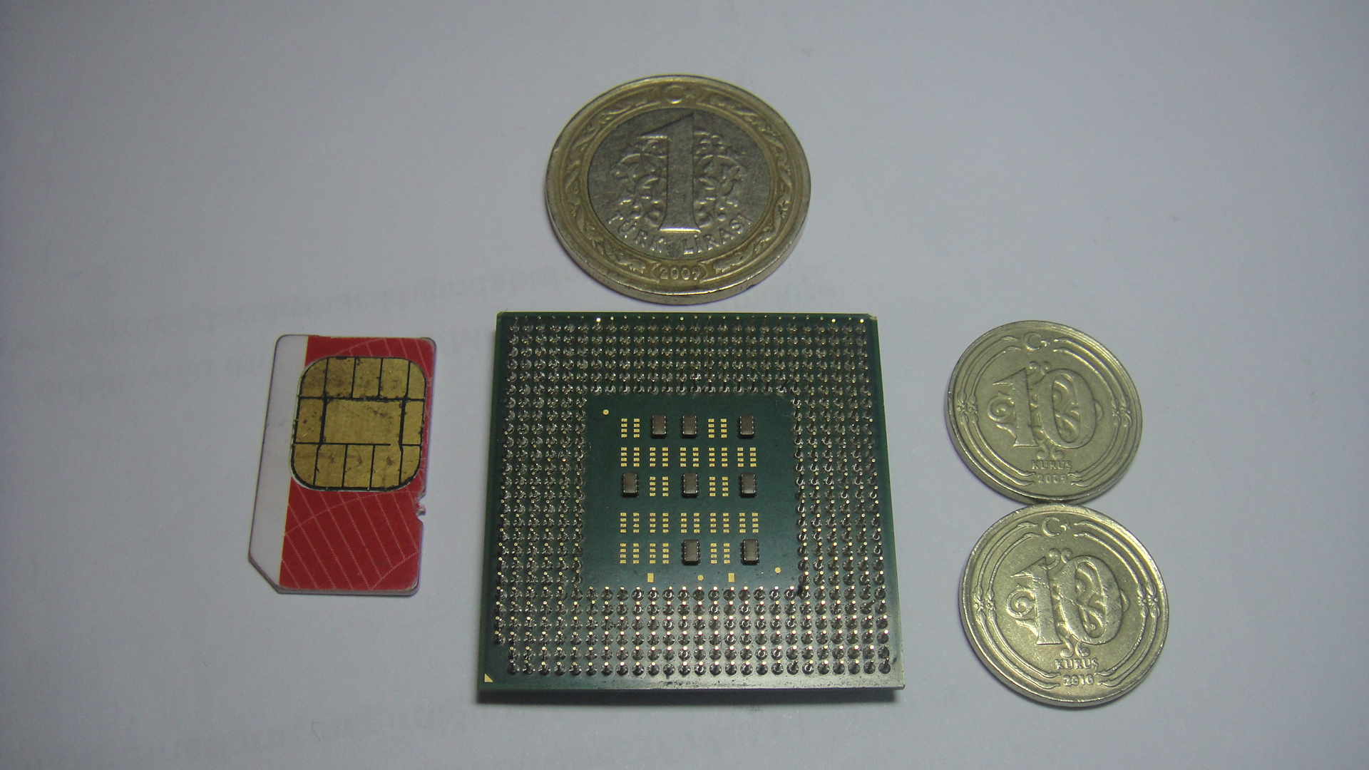 P4 Cpu comparing with coin and sim card.